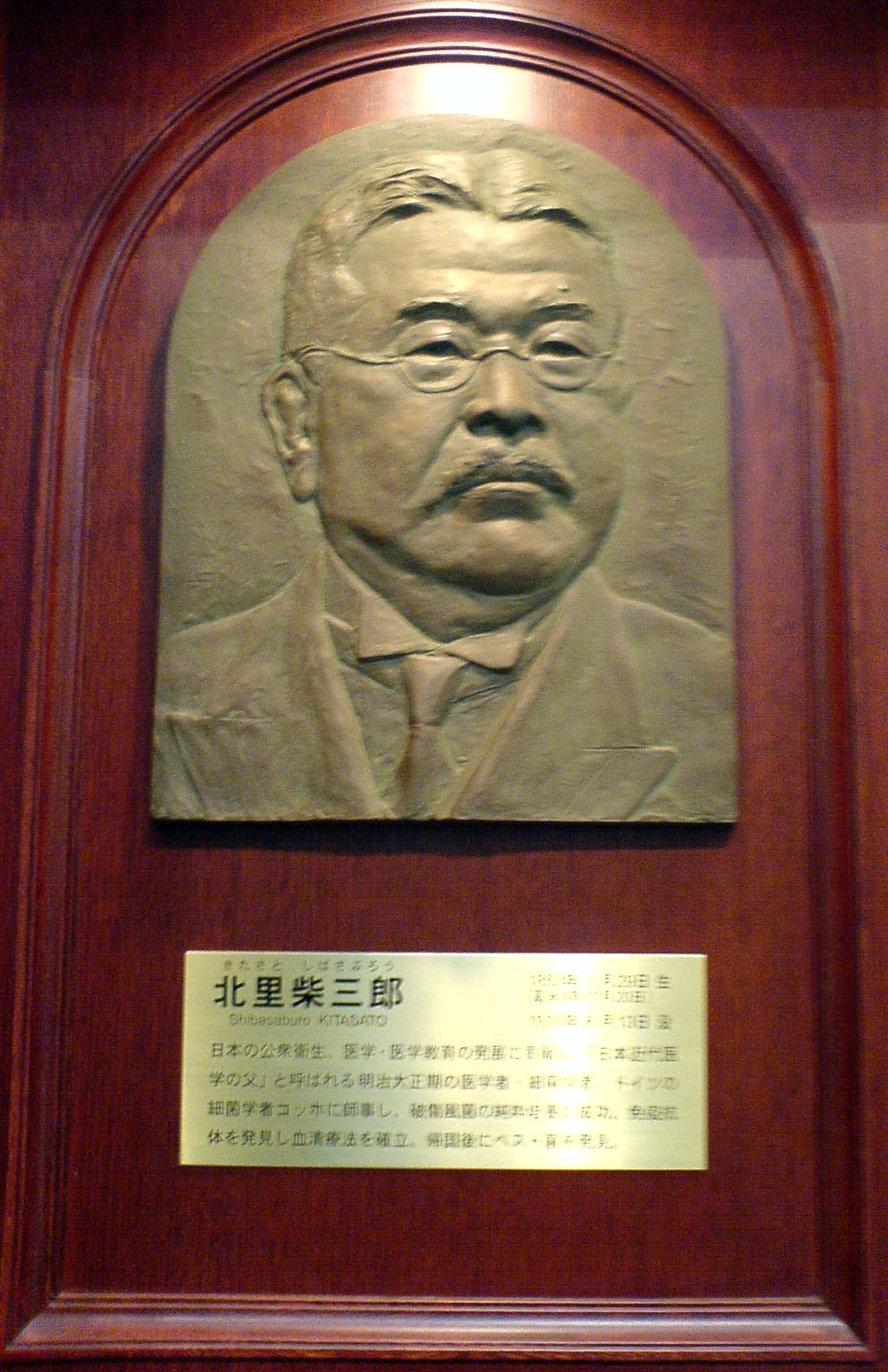 relief plastic of Shibasabuto Kitasato in Science Museum in Tokyo